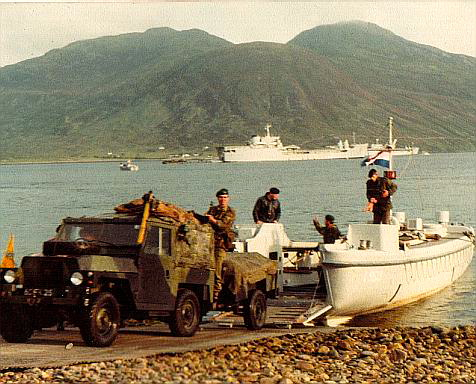 LCVP in use by The Royal Netherlands Marine Corps during the combined English/Dutch exercise "Whiskey Galore" in Scotland 1978. In the background: Brittish Landingship LSL 'Sir Percivale'